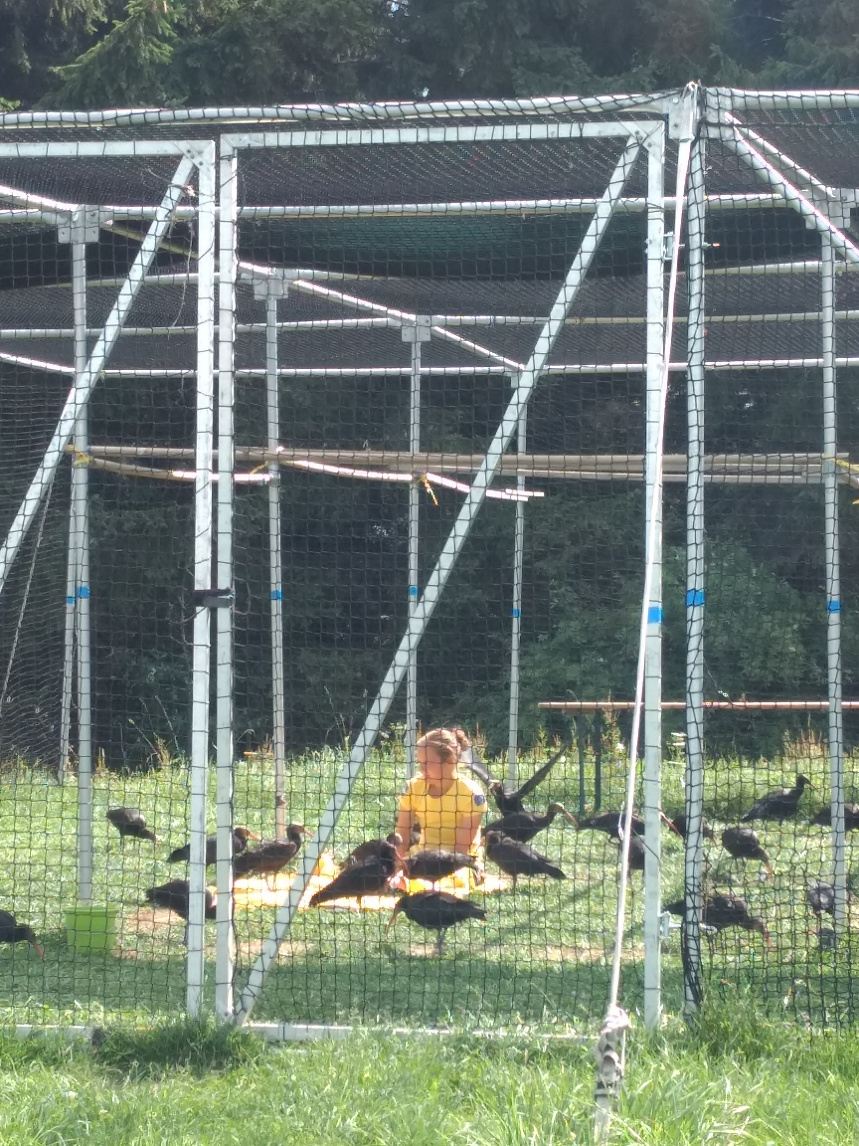 Aviary for raising the northern bald ibis in Heiligenberg, near Lake Constance